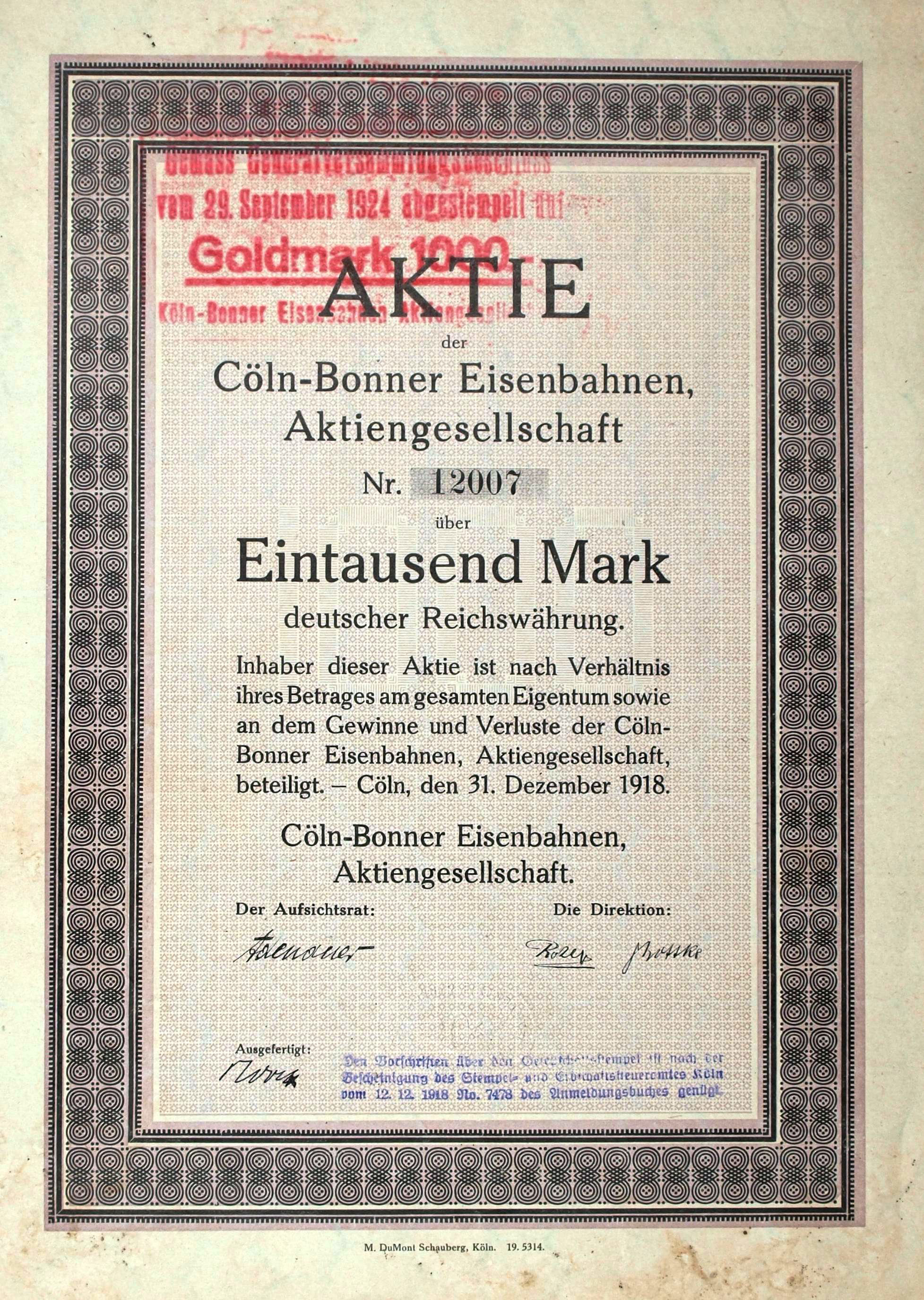 Share of the Cöln-Bonner-Eisenbahnen AG, issued 31. December 1918